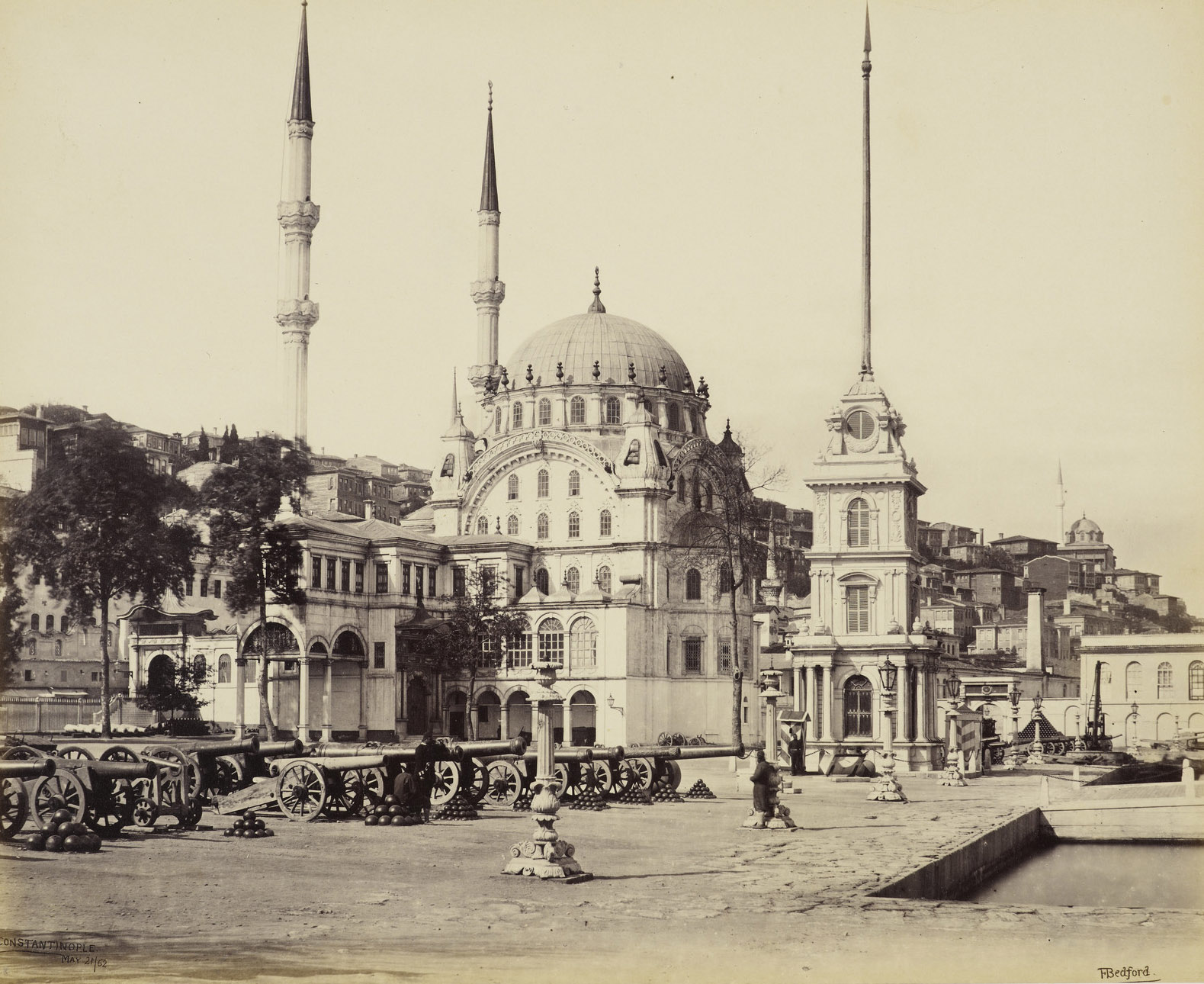 Nusretiye Mosque, Tophane (Nusretiye) Clock Tower